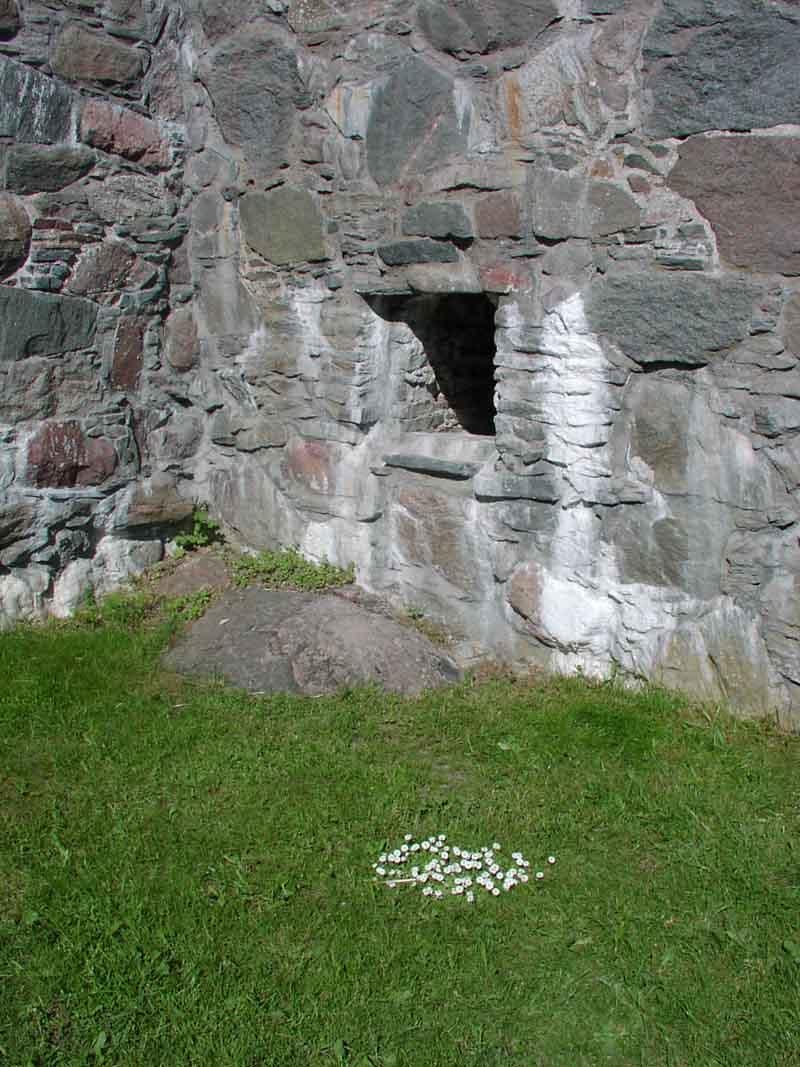 The window of Thomas Leopold's cell at Bohus Fortress in Kungalv, Sweden